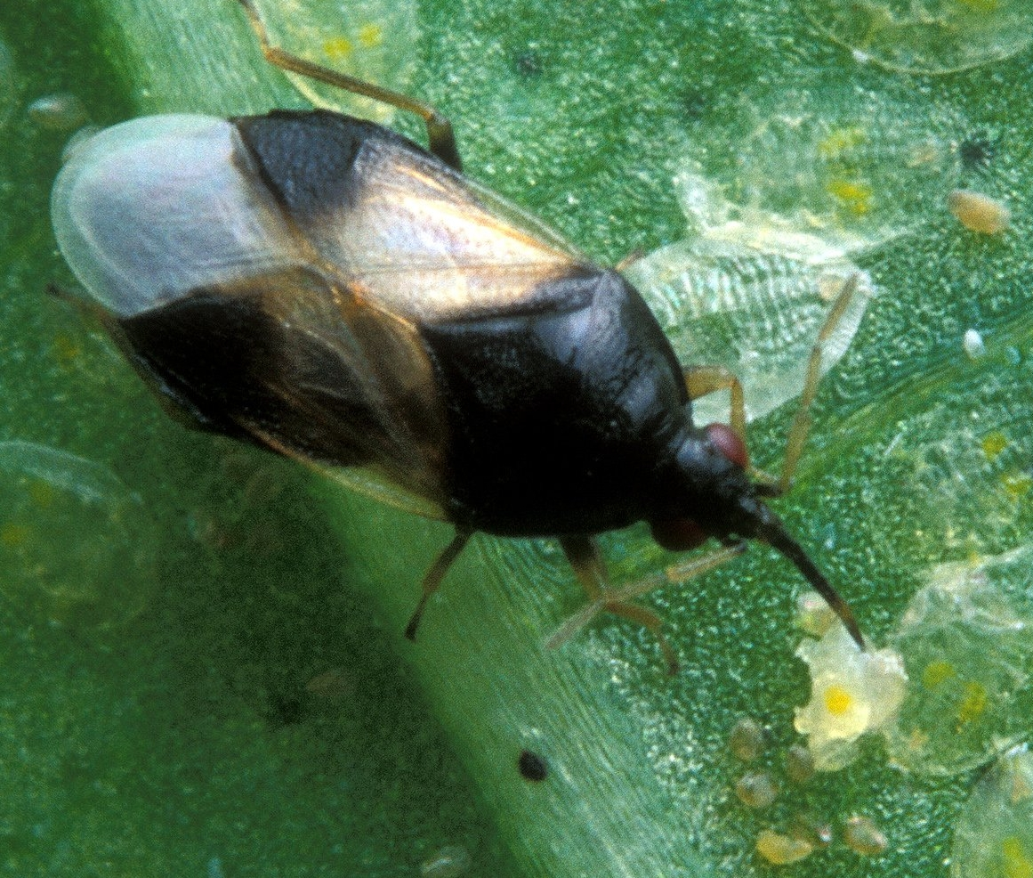 Pirate bug (Orius insidiosus [Rhynchota: Anthocoridae]) feeding on white fly nimphs